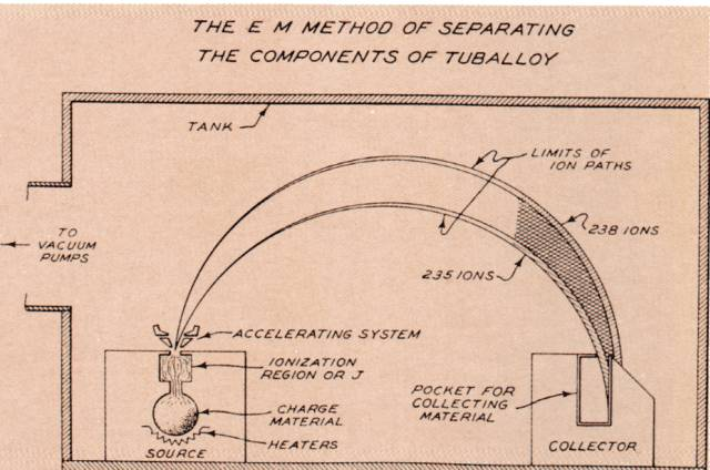 circa early 1940's diagram of uranium isotope separation in the calutron Category:United States history images